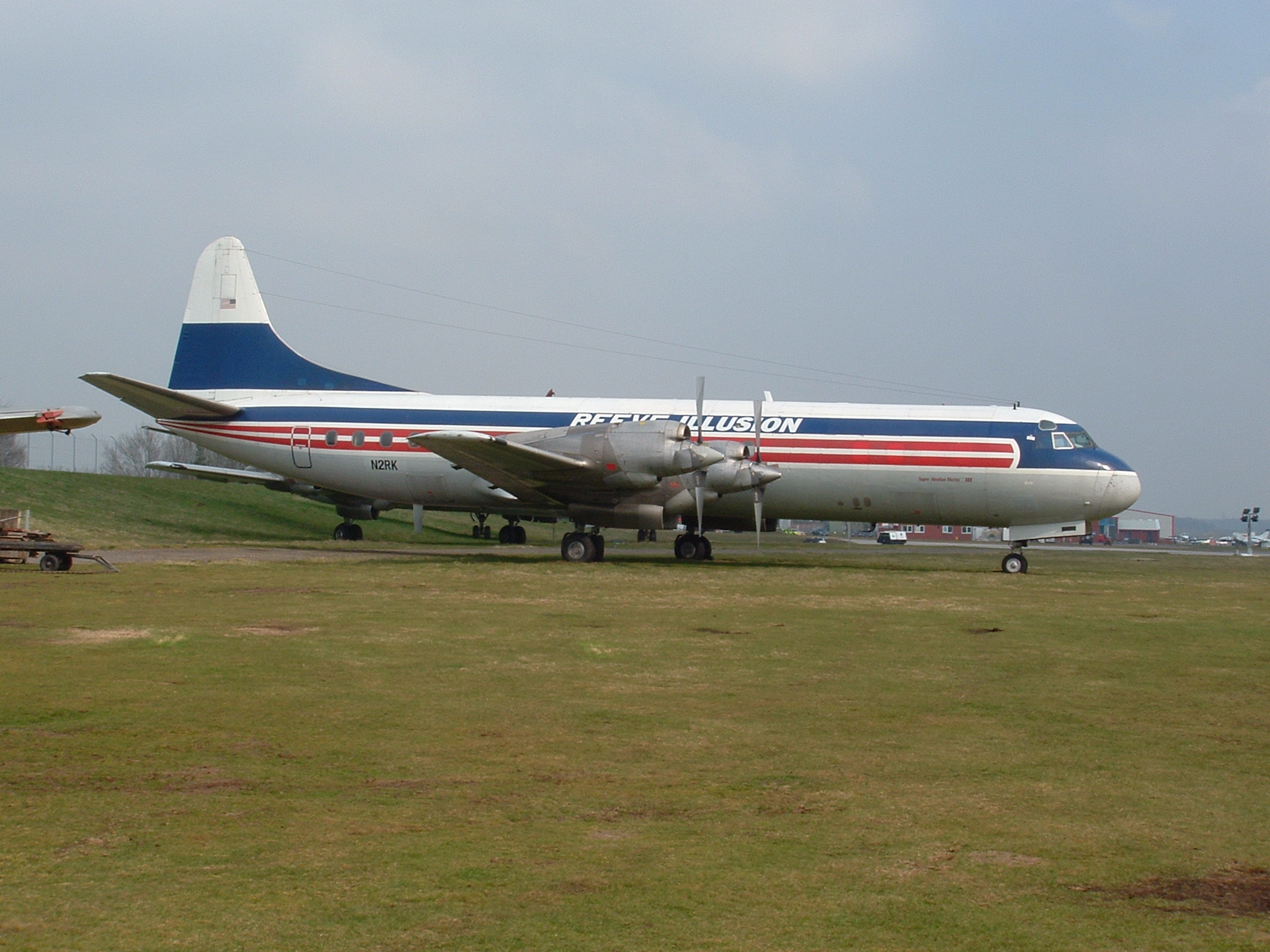 Coventry Airport,Mar 2007